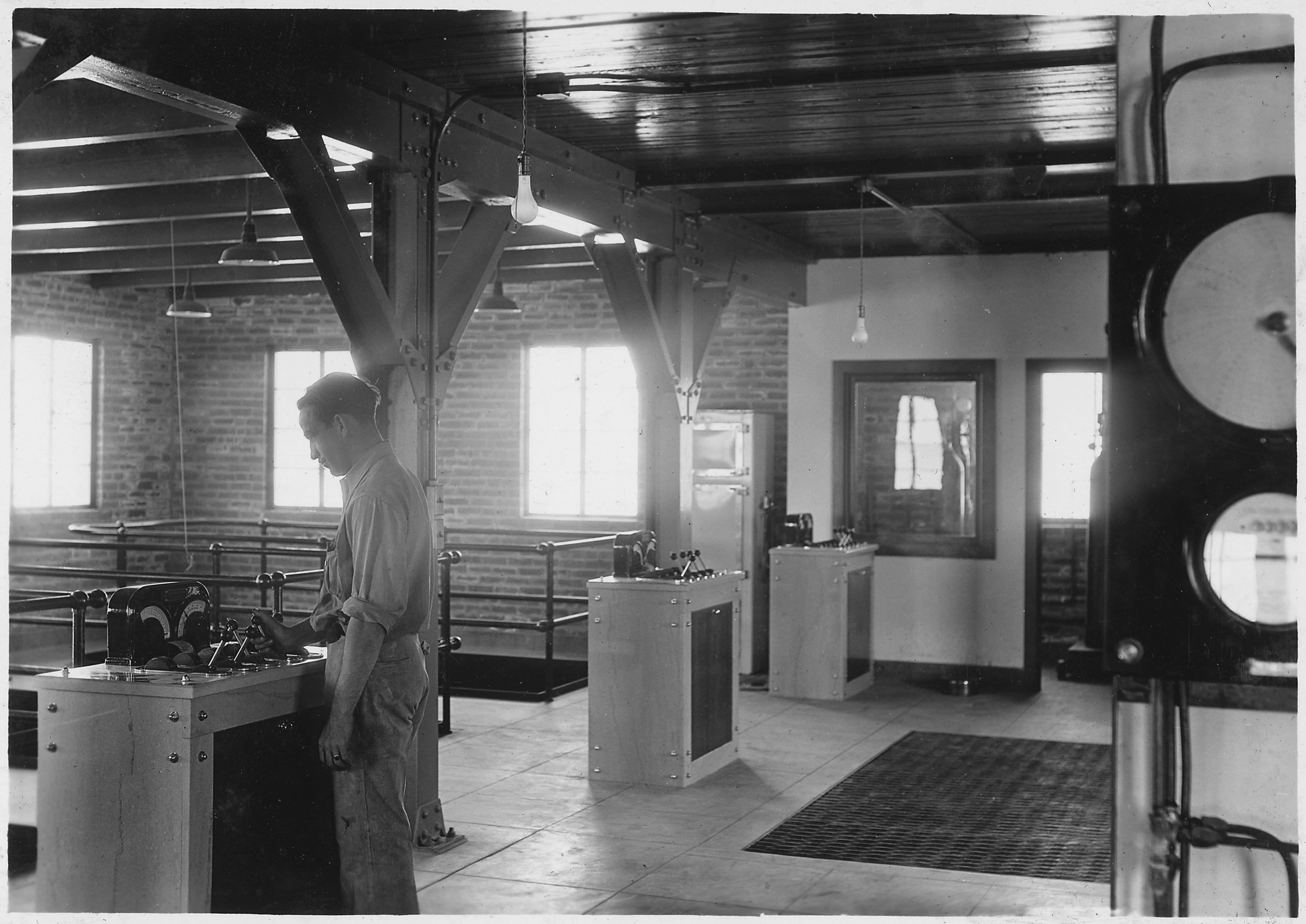 Scope and content: Photograph from Volume Two of a series of photo albums documenting the construction of Hoover Dam, Boulder City, Nevada.